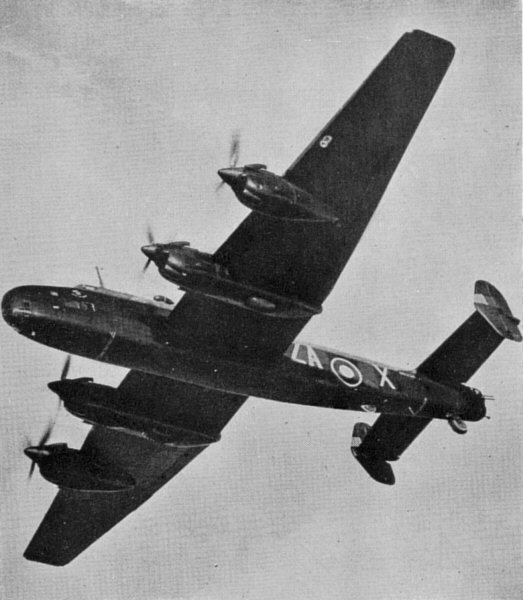 World War II UK bomber Handley Page Halifax.